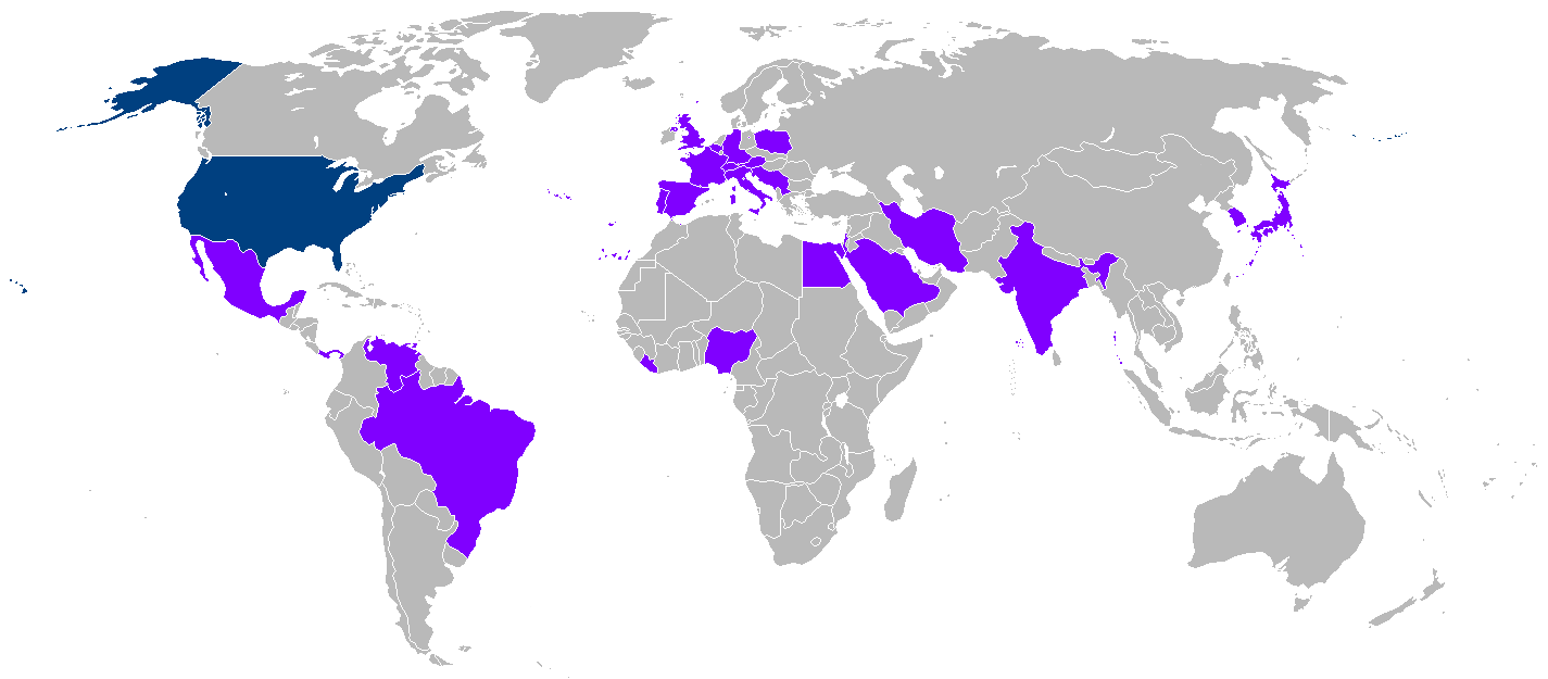 Foreign trips of Jimmy Carter during his presidency.